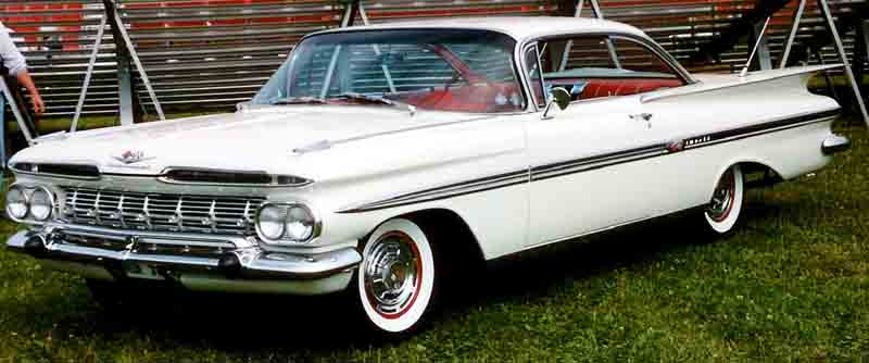 Chevrolet Impala from 1959(?)